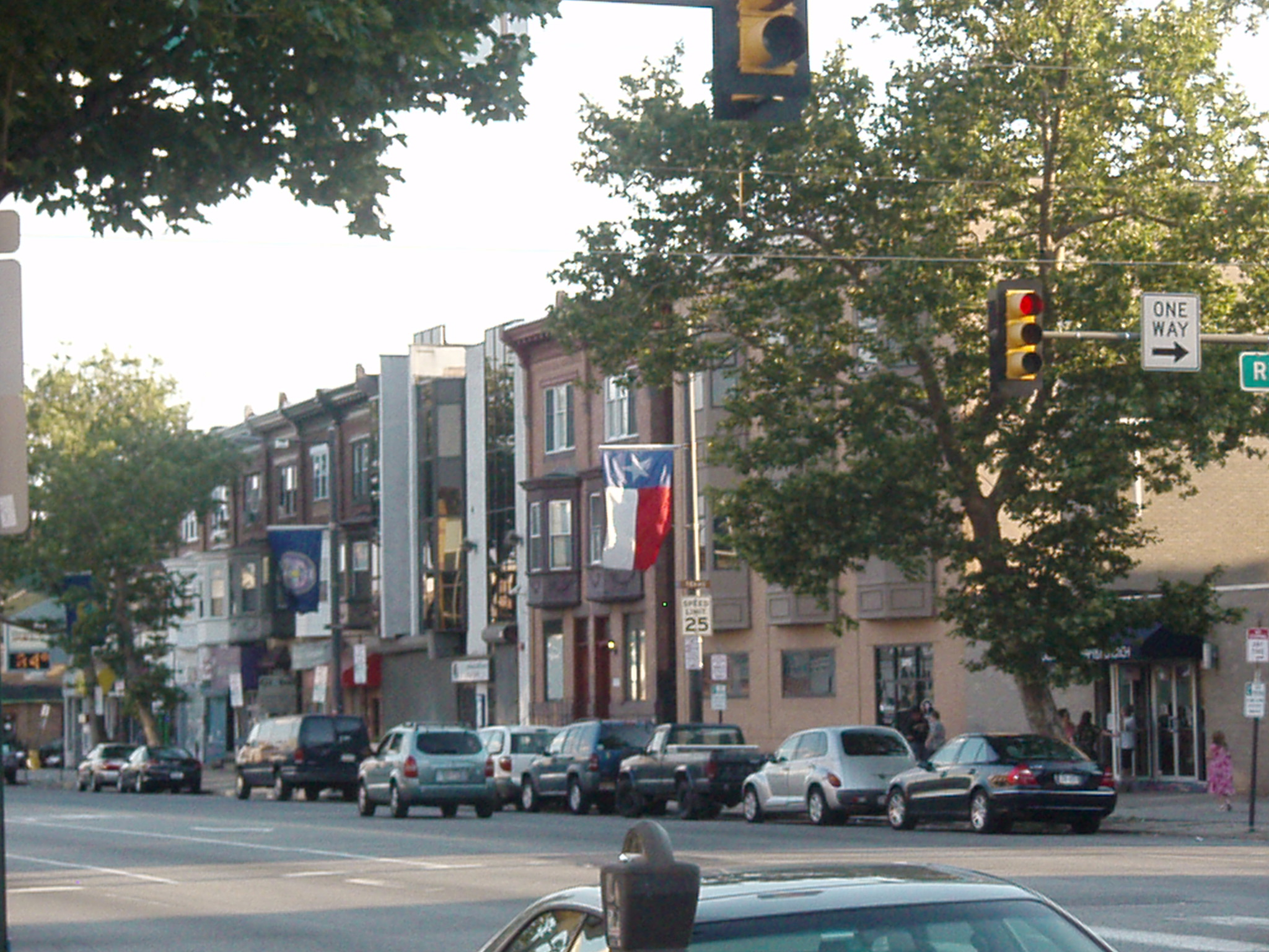 I took this photo and authorize it to be used.